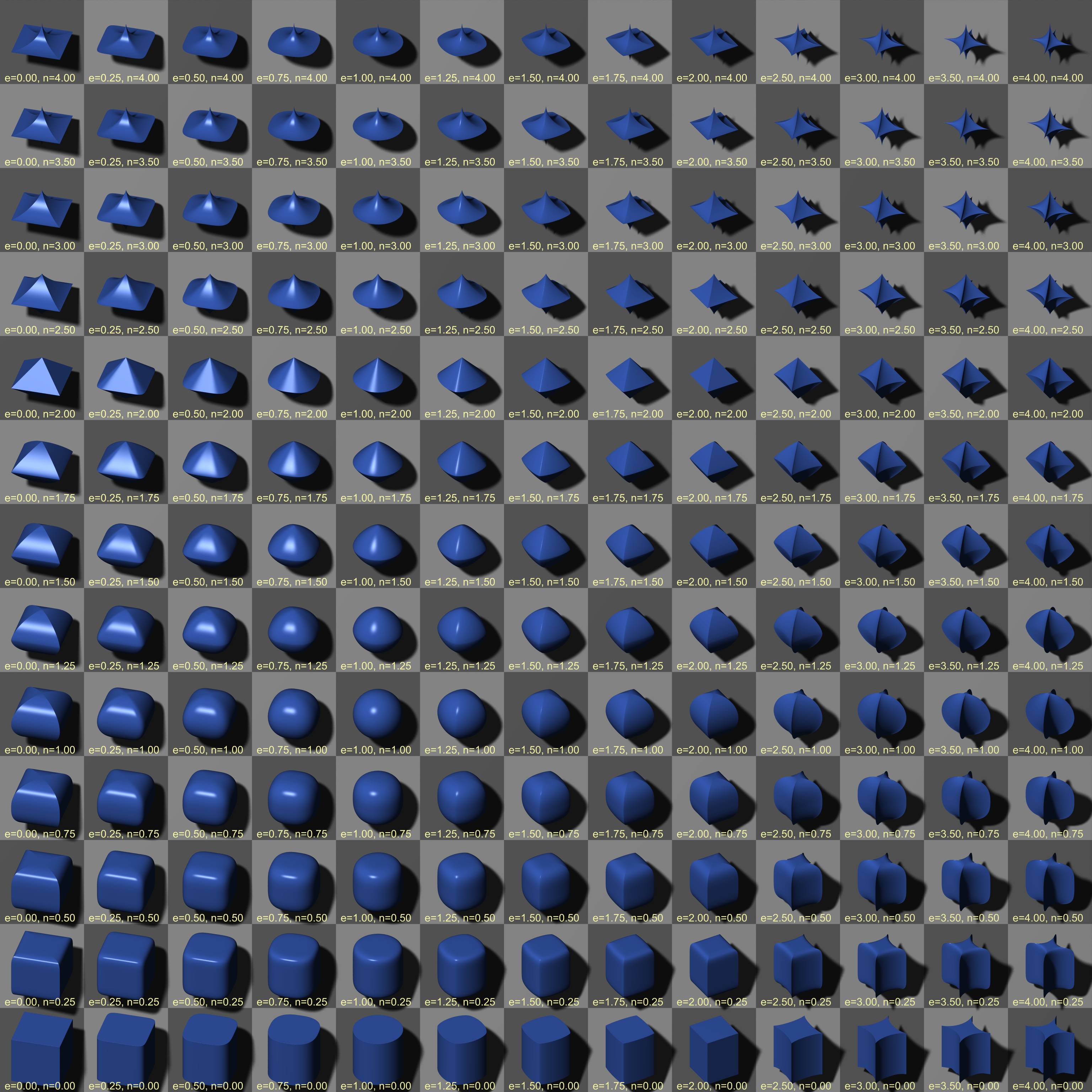 several superellipsoids with different exponent parameters.